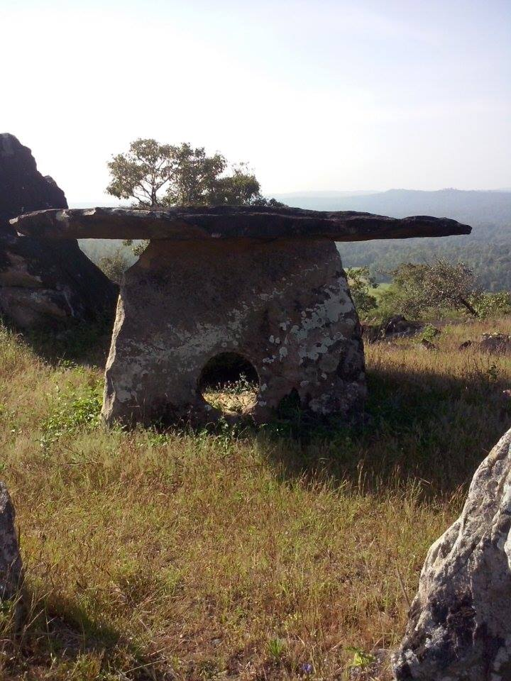 Dolmen Circle